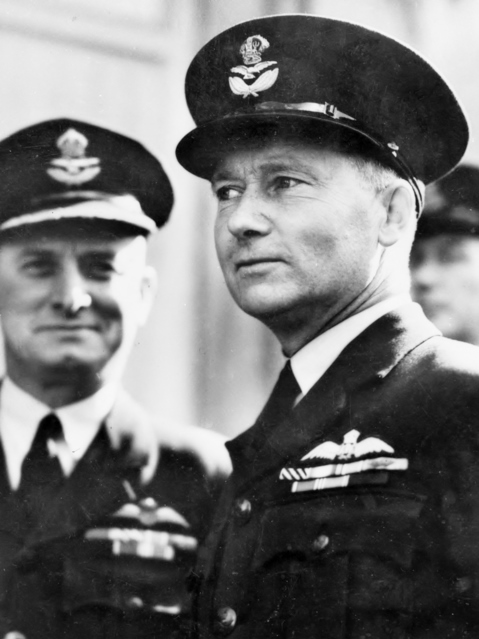 United Kingdom: England: Bournemouth. Portrait of Wing Commander (Wing Cdr) T W White DFC, RAAF (right) and an unidentified officer (left). Wing Cdr White had served in the 1st AIF and 1st Half Flight Australian Flying Corps (AFC) during the First World War and had been a Member of Parliament before joining the RAAF in April 1940 to become the first Commanding Officer of No. 1 Initial Training School at Somers, Vic. In 1941, he was posted to England to command RAAF Station, Bournemouth whose responsibilities included the reception and administration of RAAF personnel in the UK area.